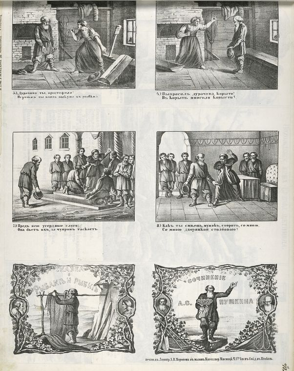 Tale of the fishermen and the fish.